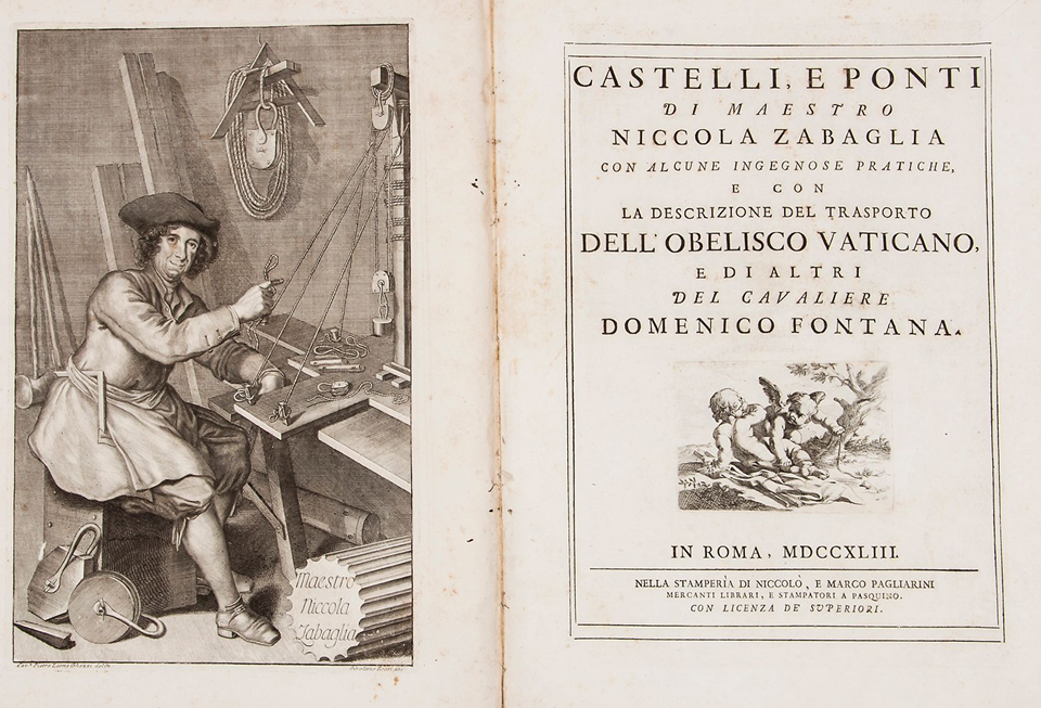 Frontispiece and title page from: Castelli, e ponti/ di maestro/ Niccola Zabaglia/ con alcune ingegnose pratiche,/ e con/ la descrizione del trasporto/ dell'obelisco vaticano,/ e di altri/ del cavaliere/ Domenico Fontana./ In Roma, MDCCXLIII./ Nella stamperia di Niccolò, e Marco Pagliarini/ mercanti librari, e stampatori a Pasquino./ Con licenza de' superiori. [con 54 tavole incise in rame, di cui 4 a doppia pagina, disegnate ed incise da diversi artisti: François Philothée Duflos (incisore), Carlo Fontana (disegnatore), Pietro Leone Ghezzi (disegnatore), Nicola Gutierrez (incisore), Francesco Mazzoni (incisore), Girolamo Rossi (incisore), Francesco Rostagni (disegnatore), Martin Schedel (incisore), Miguel de Sorello (incisore), Alessandro Specchi (incisore), Giuseppe Vasi (incisore).] Frontispiece with portrait of Maestro Niccola Zabaglia, marked Cav[aliere.] Pietro Leone Ghezzi.delin[eavit] Girolamo Rossi inc[idit]